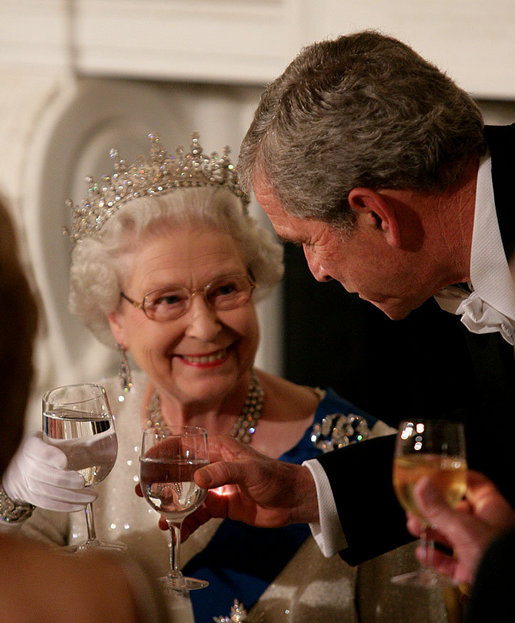 President George W. Bush toasts Her Majesty Queen Elizabeth II of the United Kingdom following welcoming remarks, during the State Dinner in her honor at the White House.